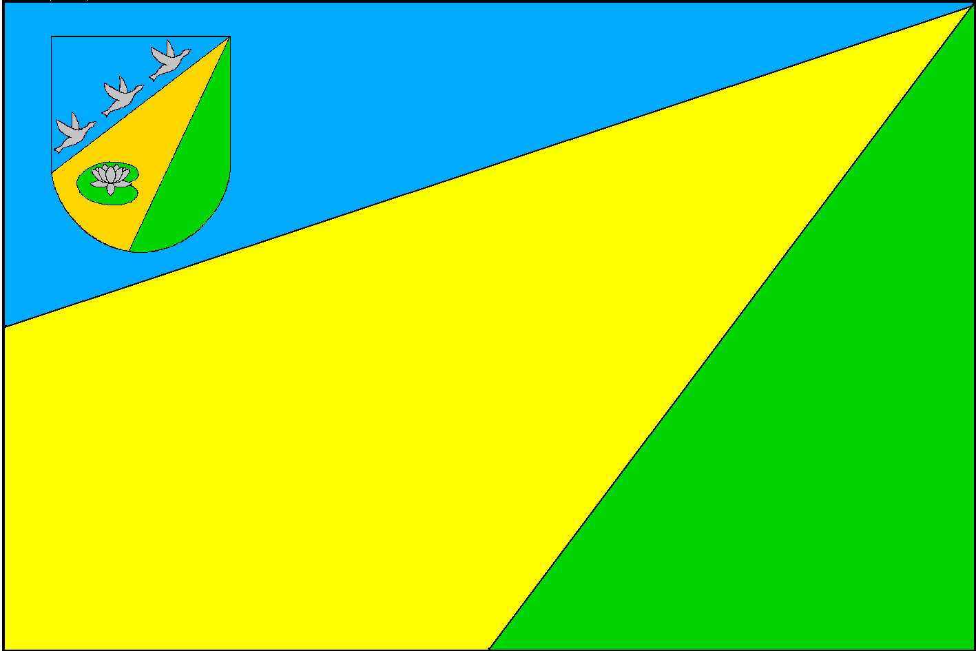 Flag of Zarichne raion